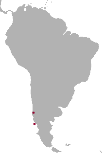 Darwin's Fox range